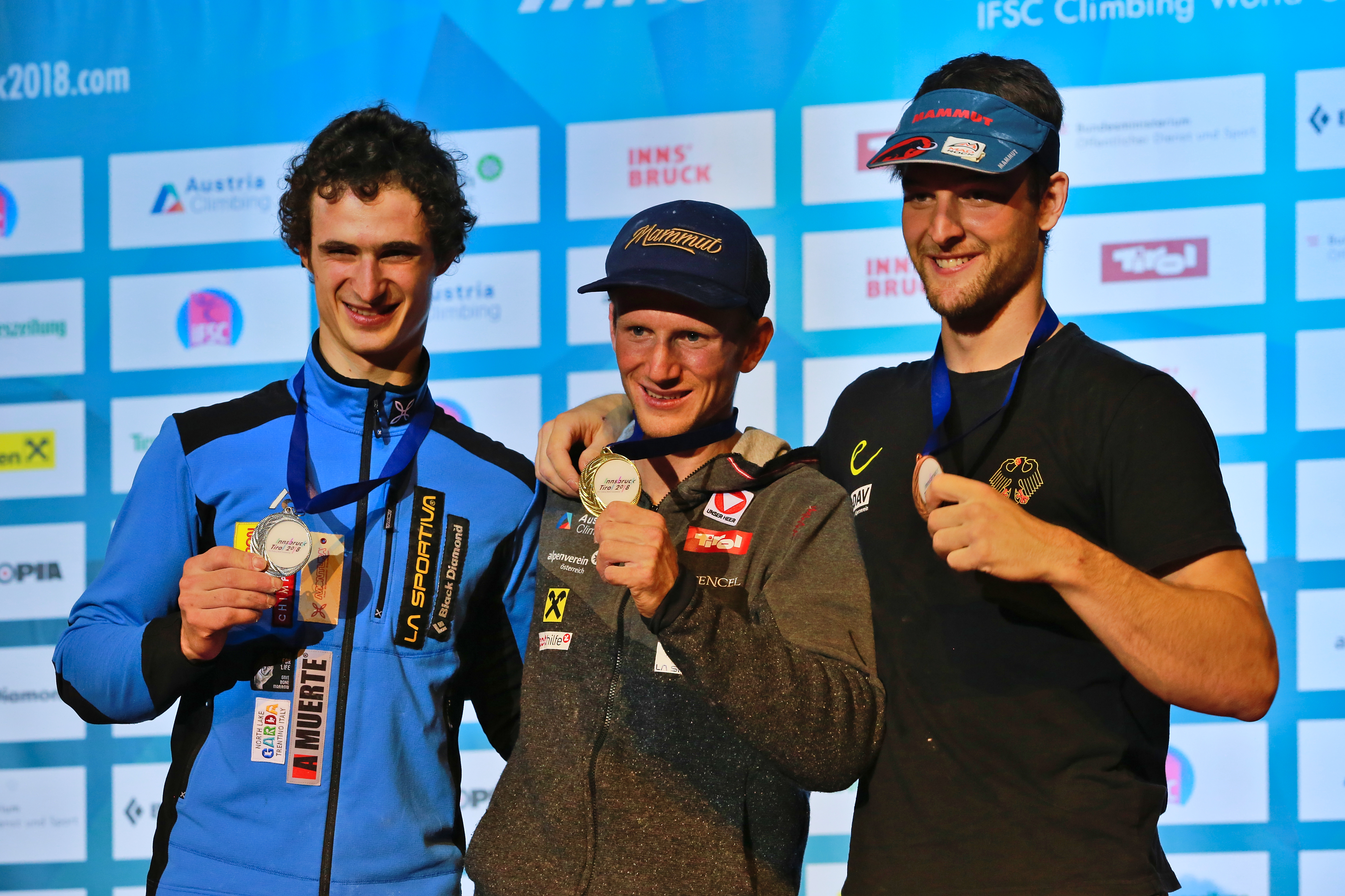 Climbing World Championships 2018 Combined Final Man winners